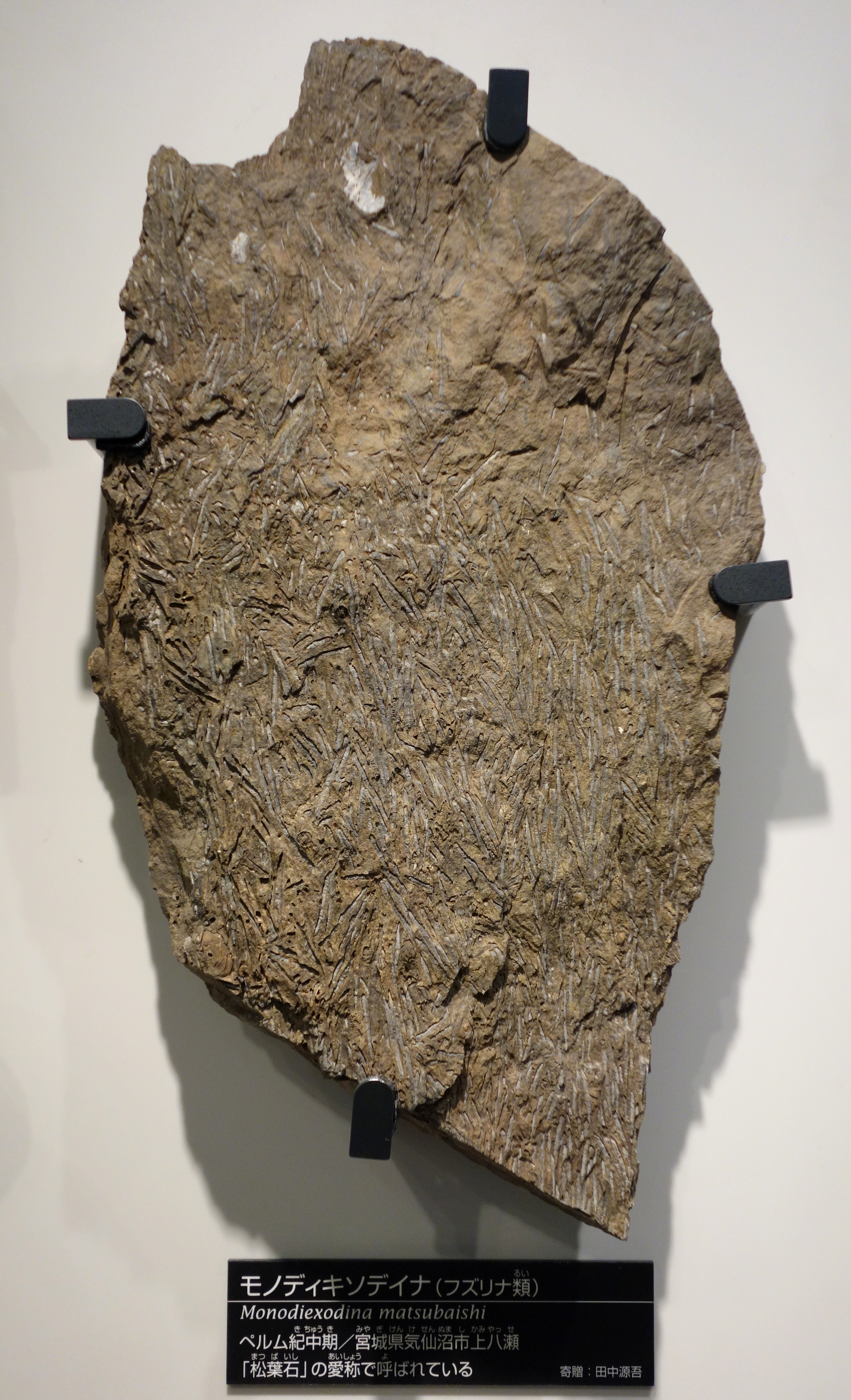 Exhibit in the National Museum of Nature and Science, Tokyo, Japan.